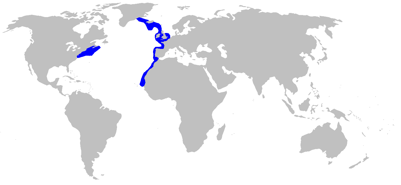 Distribution map for Etmopterus princeps